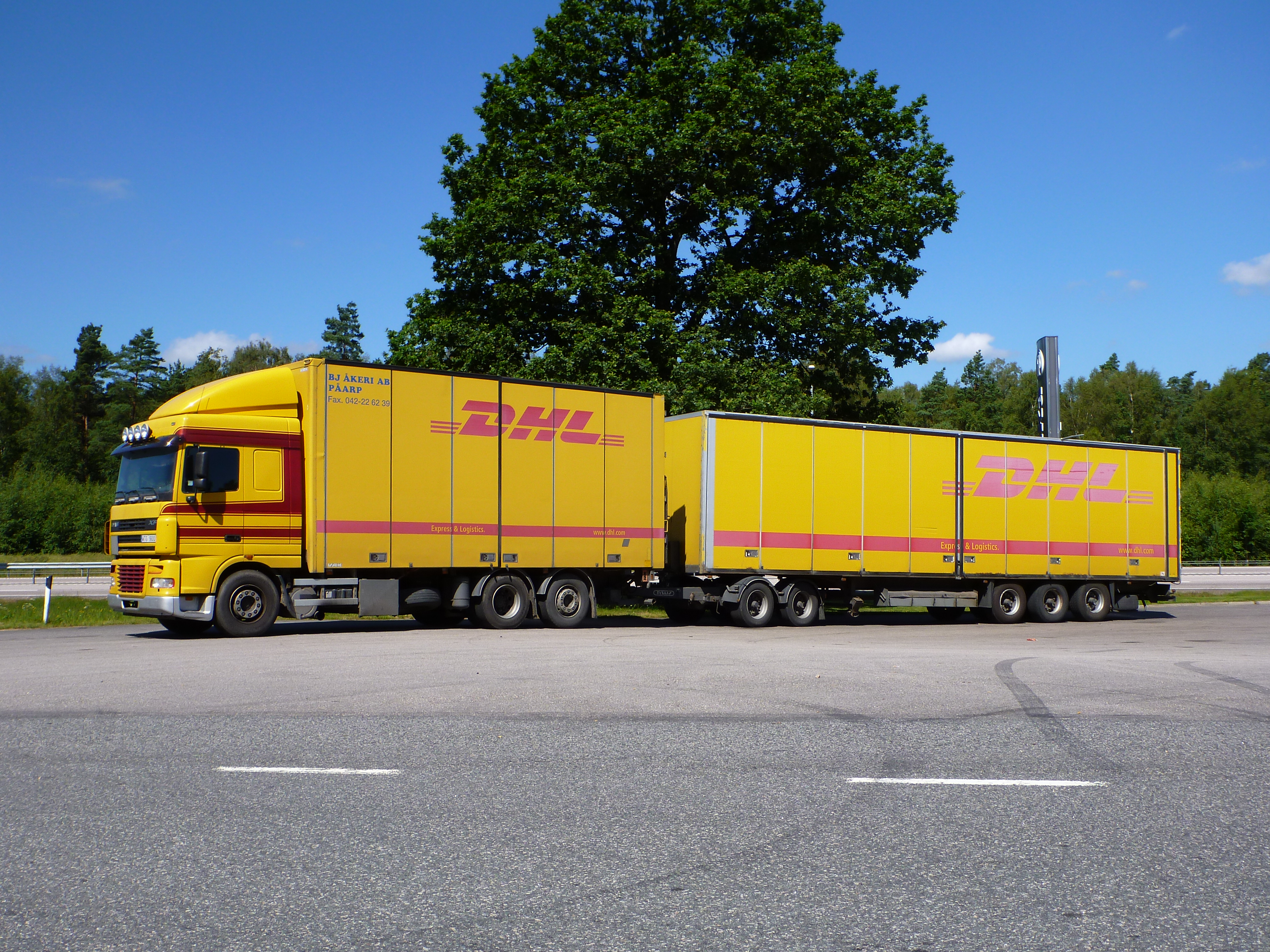 DAF Truck Gigaliner from DHL in Sweden